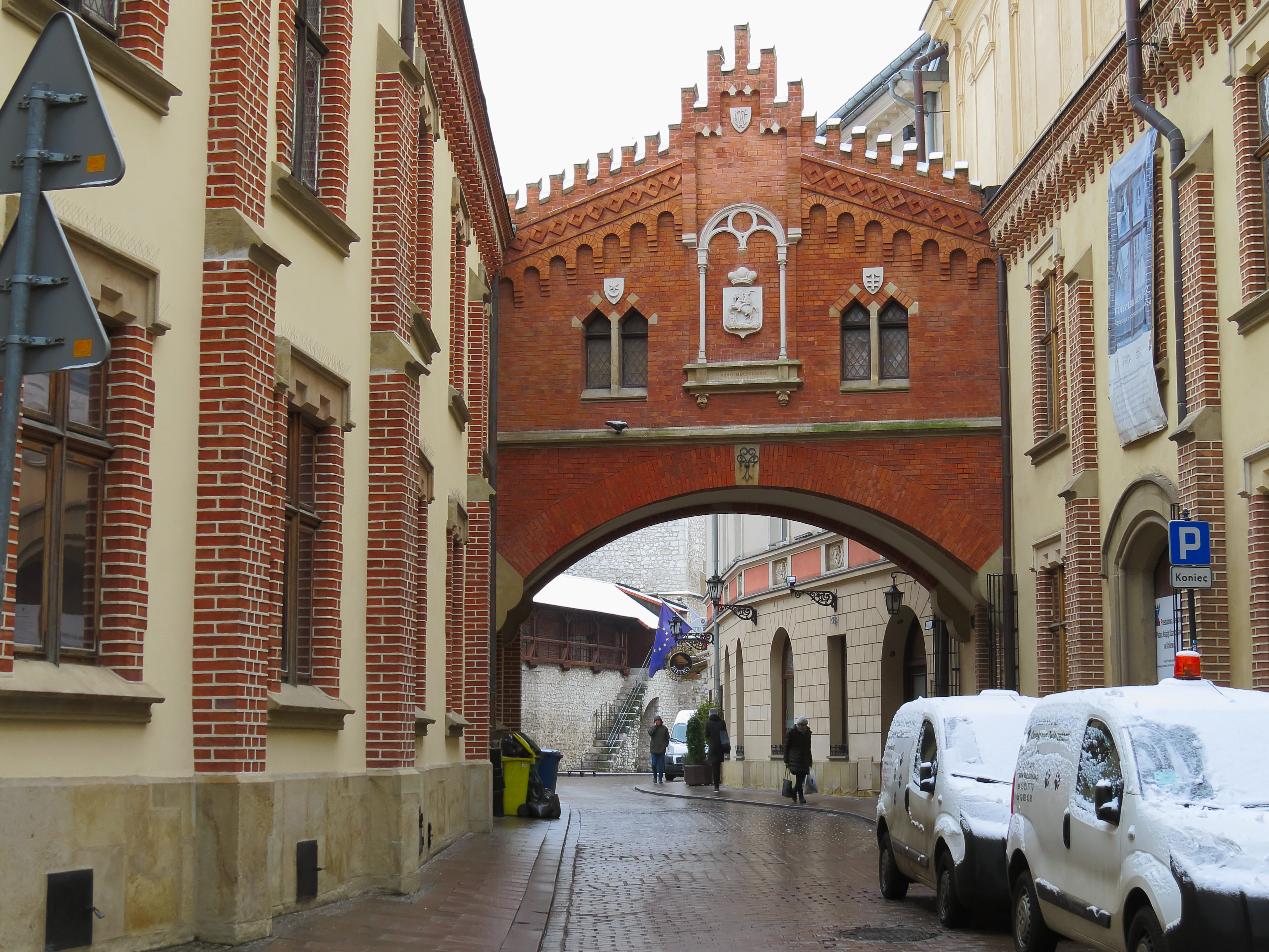 Czartoryski Museum in Kraków